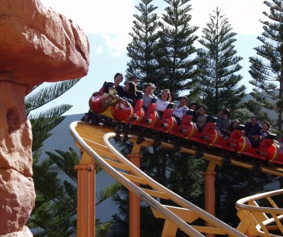 The Road Runner Rollercoaster ride in the Kids WB Fun Zone at Warner Bros. Movie World, Australia.